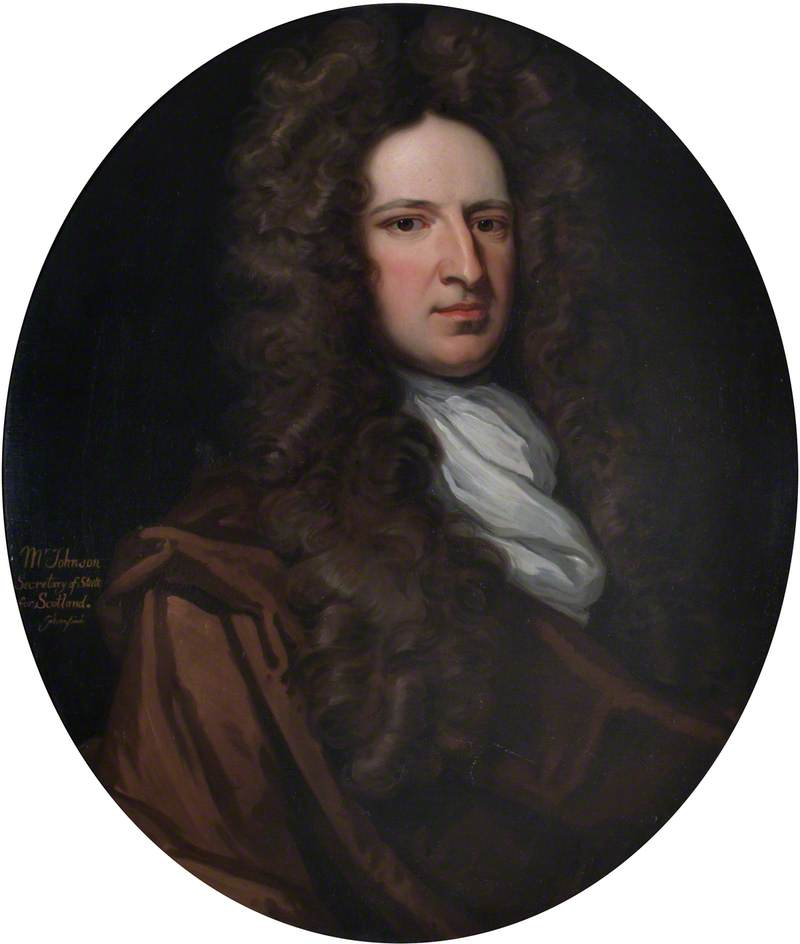 James Johnston (1643-1737), Secretary of State for Scotland